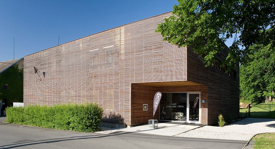 Headquarters UAX, Bernartice Oder 131, Czech Republic